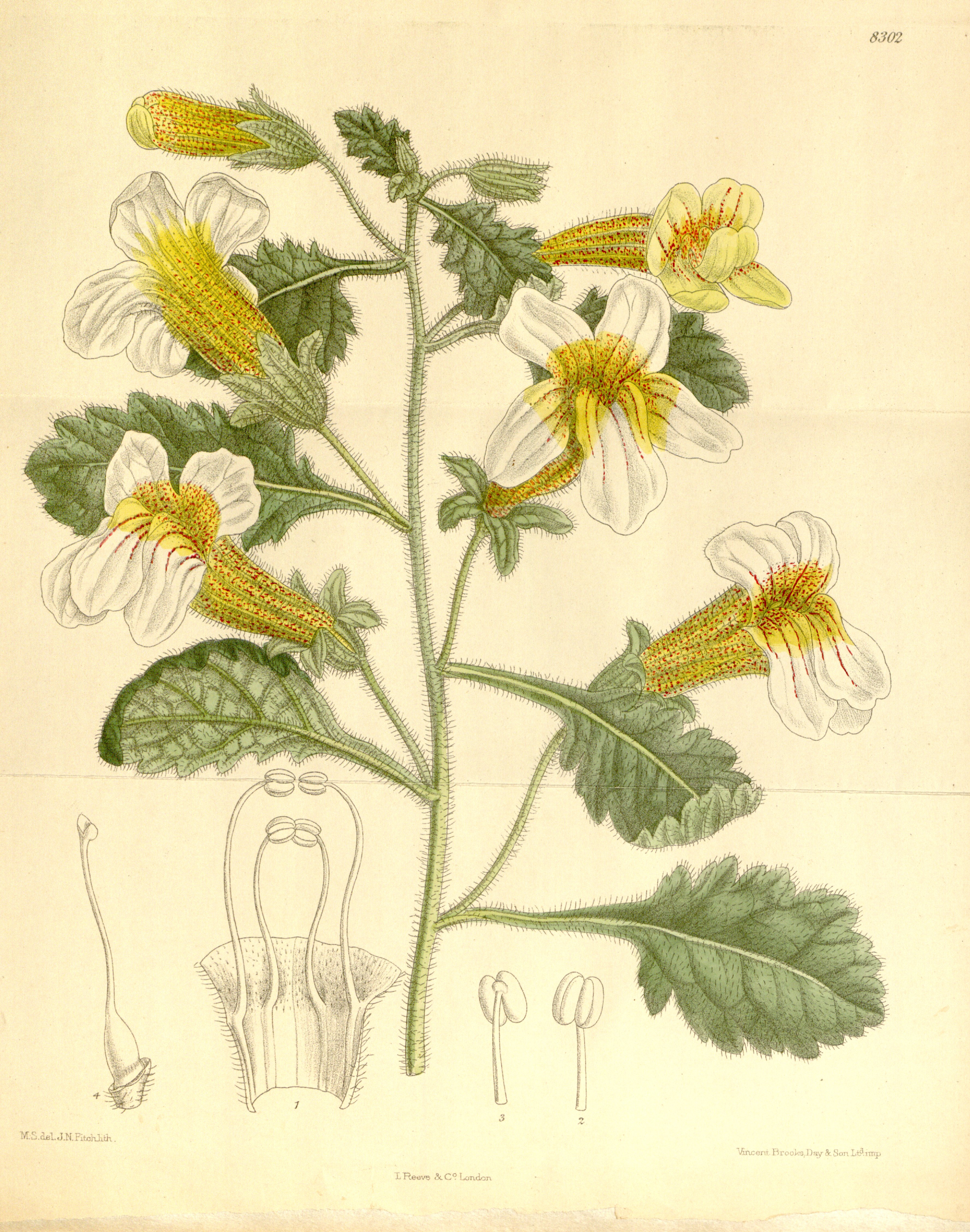 Rehmannia henryi, Orobanchaceae